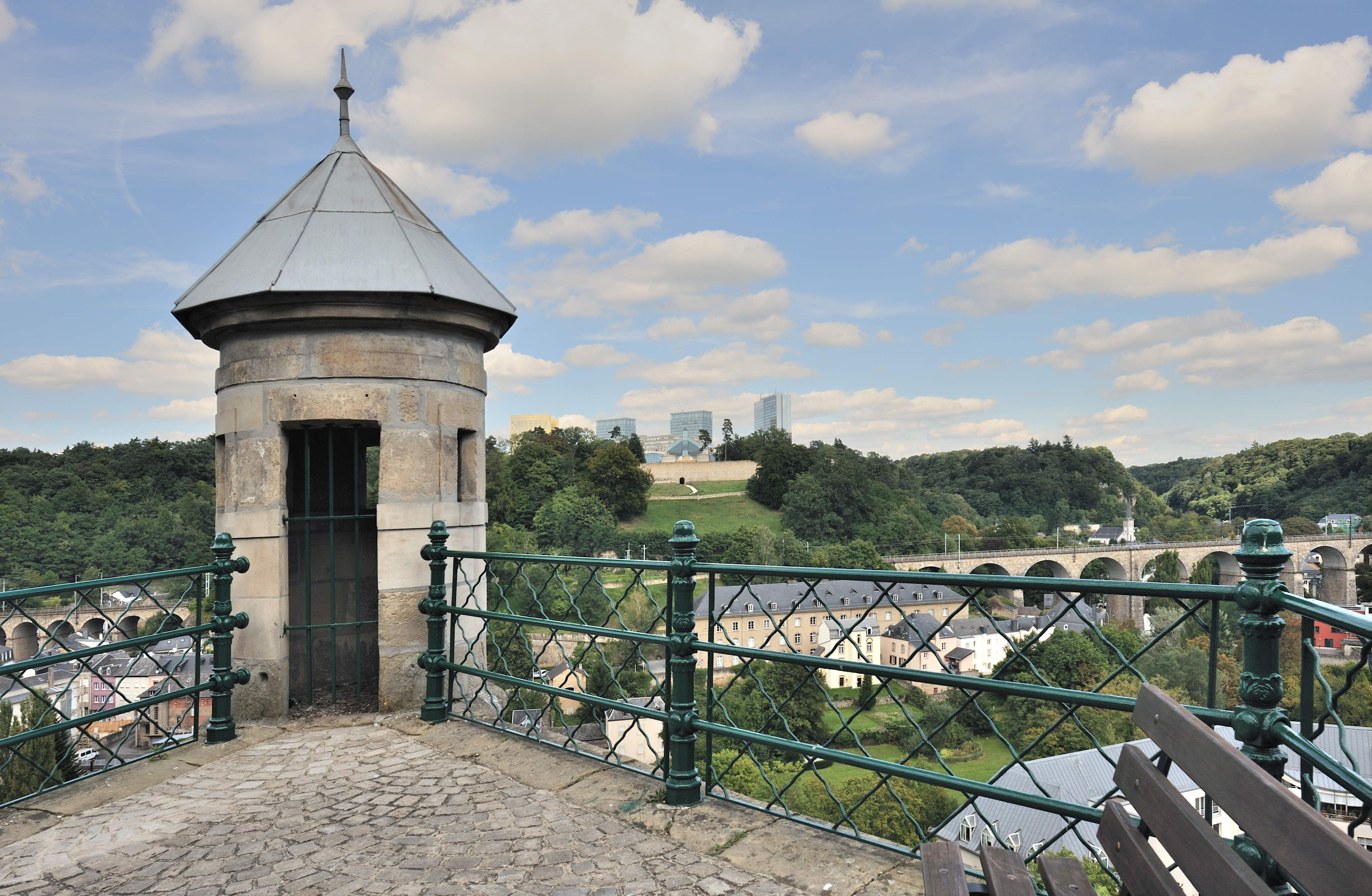 Luxembourg City: bartizan of the ancient fortress over the Alzette valley, montée de Pfaffenthal. Plateau de Kirchberg in the background.